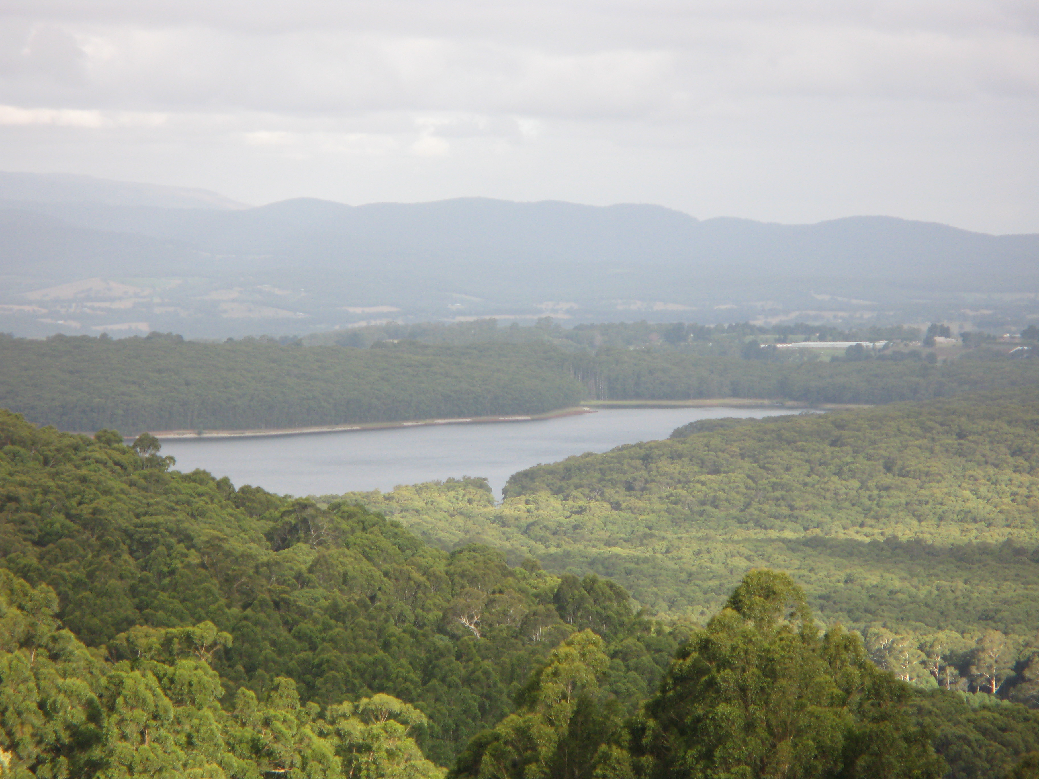 Silvan Reservoir from Kalorama, Victoria, in the Dandenong Ranges. Photo taken by Nick carson in January 2010.